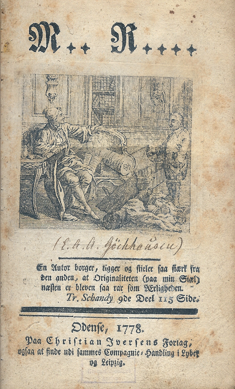 The title page of the Danish translation of Ernst August von Göchhausens novel M.... R..... (Meine Reisen) from 1778, written in the style of Laurence Sternes "A Sentimental Journey".